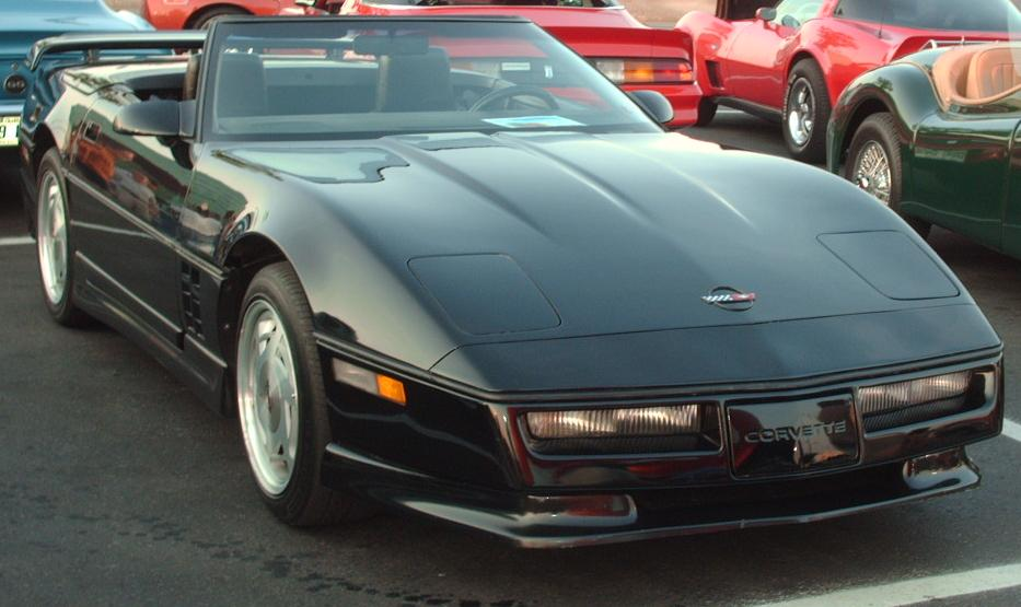 1984-1993 Chevrolet Corvette C4 Convertible photographed in Montreal, Quebec, Canada at Gibeau Orange Julep.